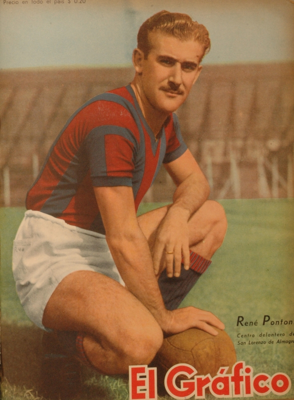 Footballer René Pontoni while playing for San Lorenzo de Almagro, in 1945.